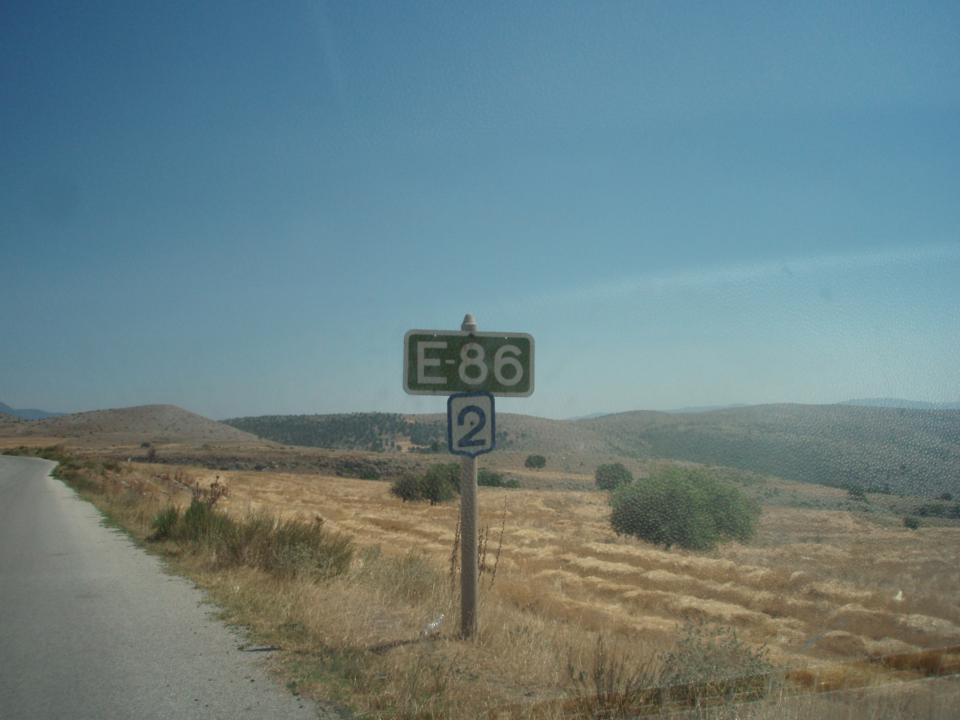 Old National Road 2 in Greece, section Kelli-Arnissa. Enumeration sign of Greek National Road 2 is shown.